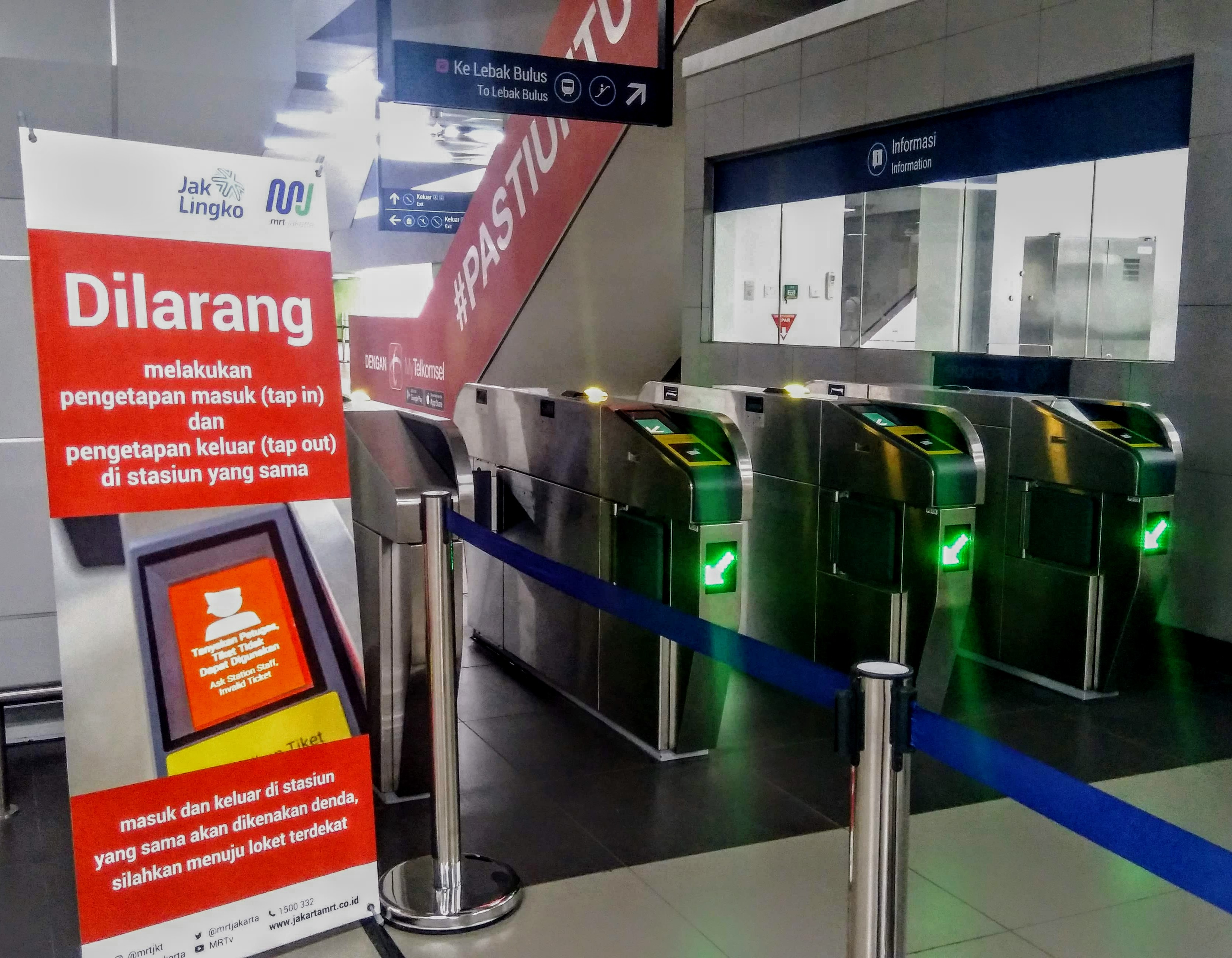 Ticket barriers at Blok M MRT Station, the banner telling commuters that tap-in and tap-out in the same station is not permitted